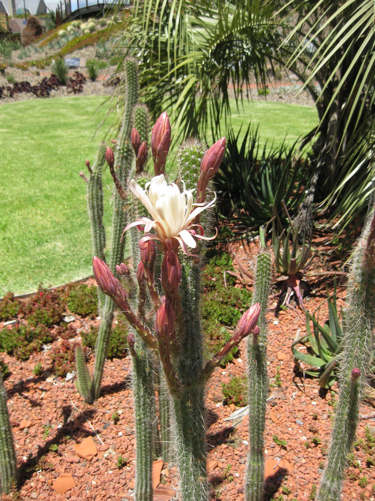 Nyctocereus serpentinus photographed at the Royal Botanic Gardens Melbourne (Australia) in December